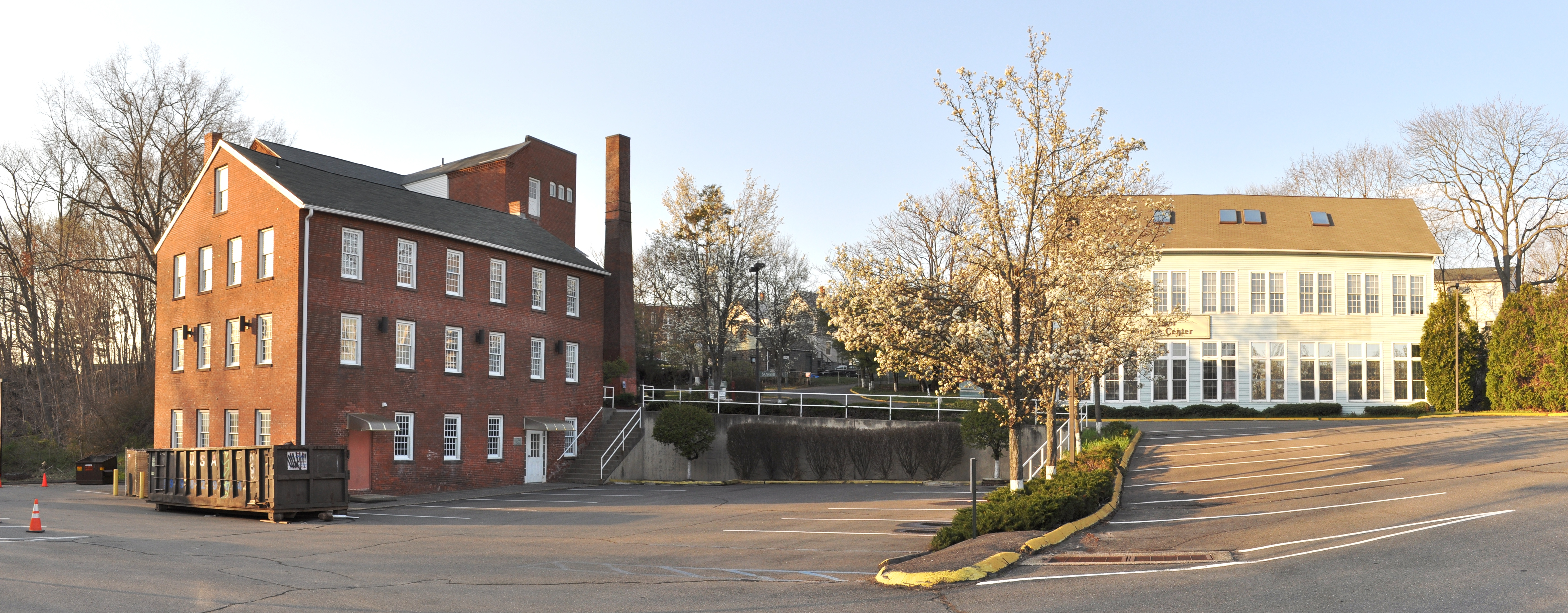 Panoramic view, Sanseer Mill, 215 E. Main St, Middletown, Connecticut, USA. This is about a 130° panorama. This image was created with Hugin